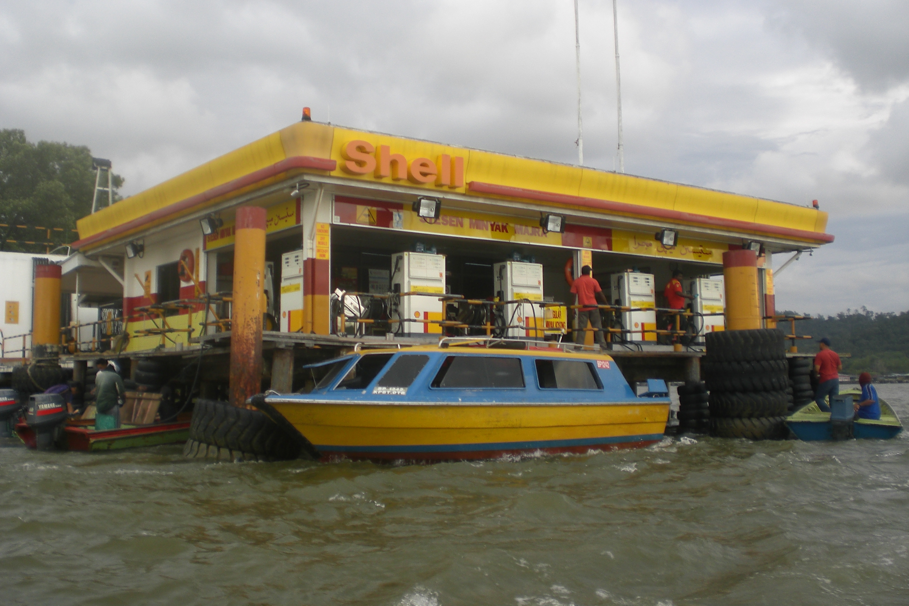 Boats get some gas at Shell Station in Bandar Seri Begawan, Brunei